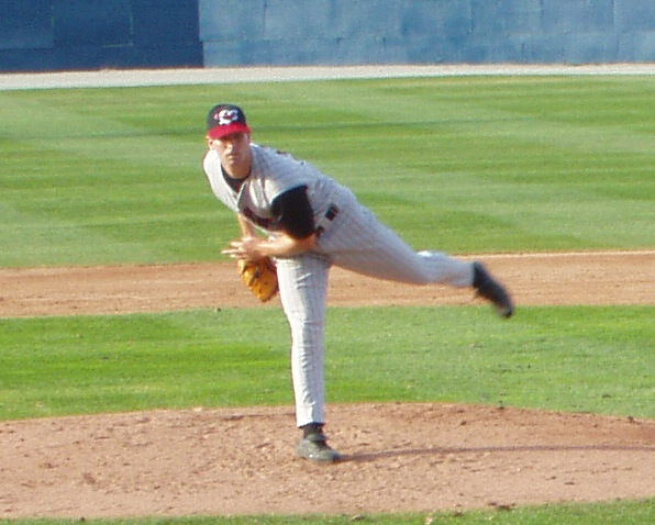 Jason Miller of the Quad City River Bandits pitches to Matt Carson of the Battle Creek Yankees during an April 2003 game in Battle Creek, Michigan.